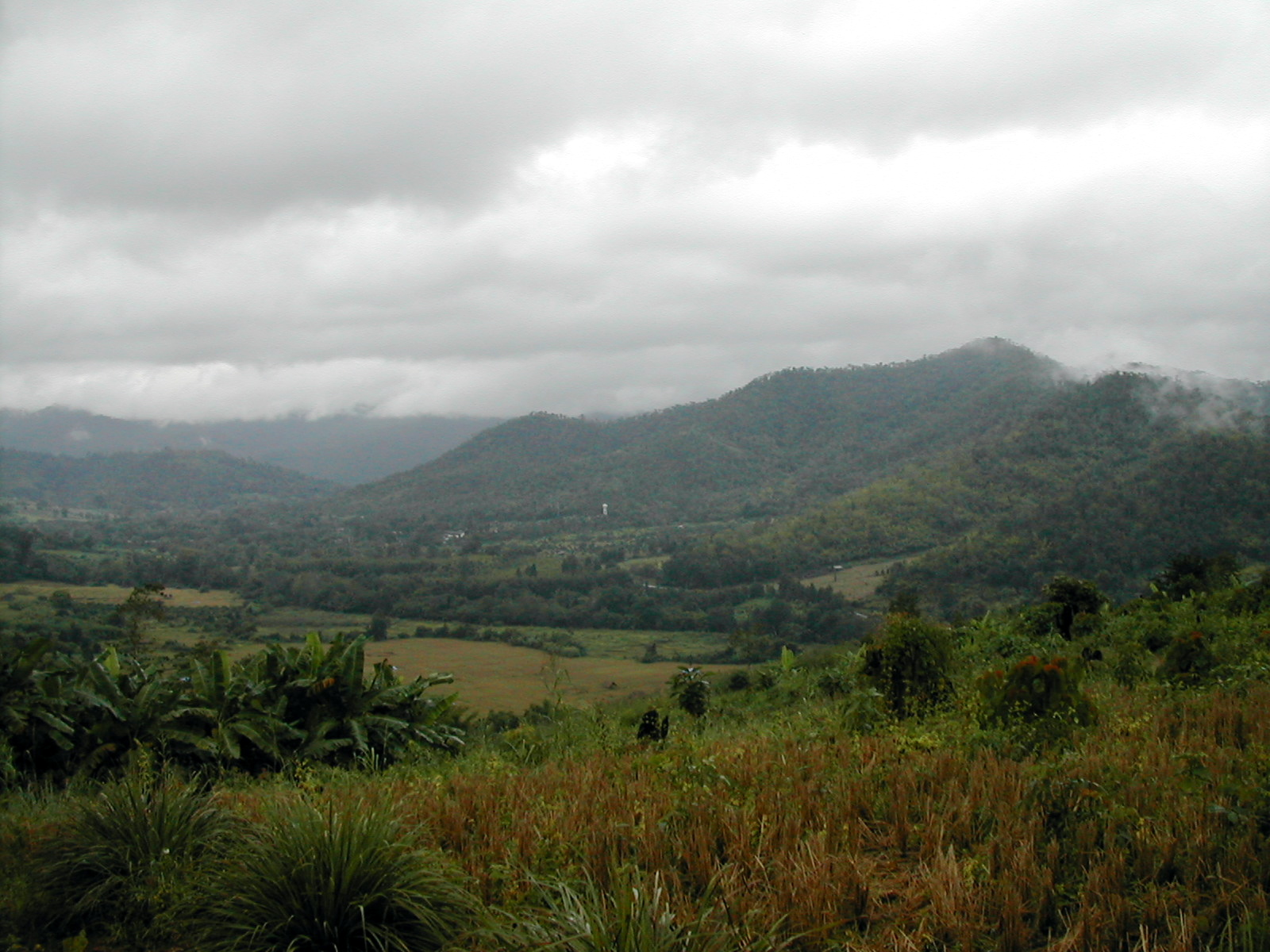 Outside of Chang Mai